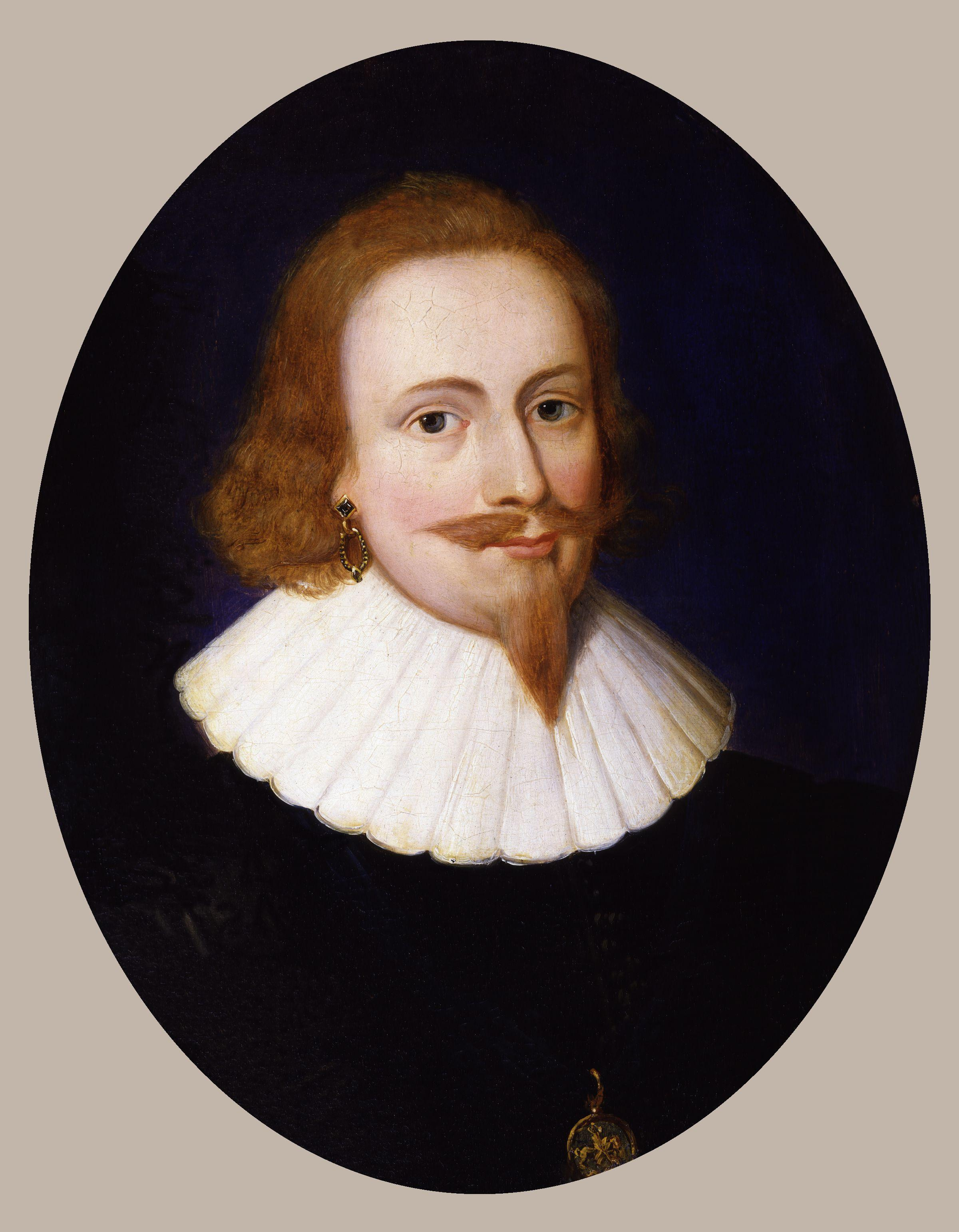 Robert Carr, Earl of Somerset, by John Hoskins (died 1670), given to the National Portrait Gallery, London in 1898. All images in this batch have been confirmed as author died before 1939 according to the official death date listed by the NPG.